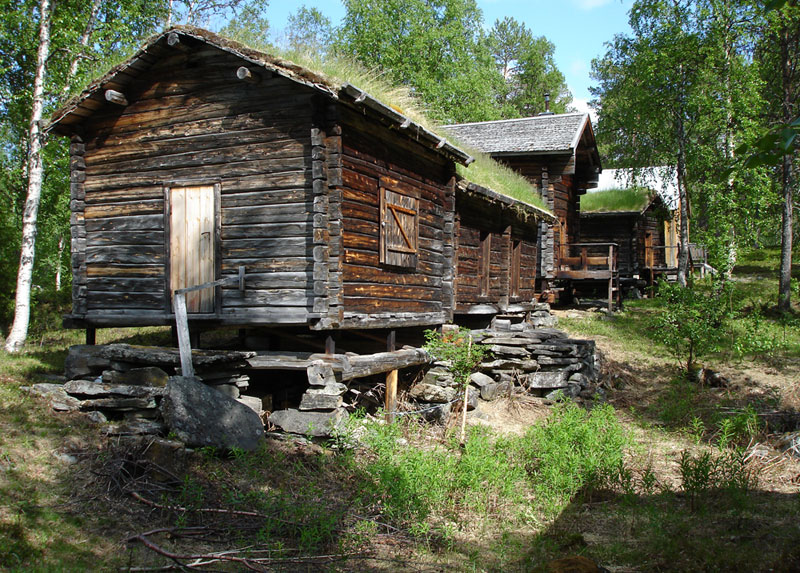 View of "Lapplatsen" in Ammarnäs, with Sami cottages which were used during church services.